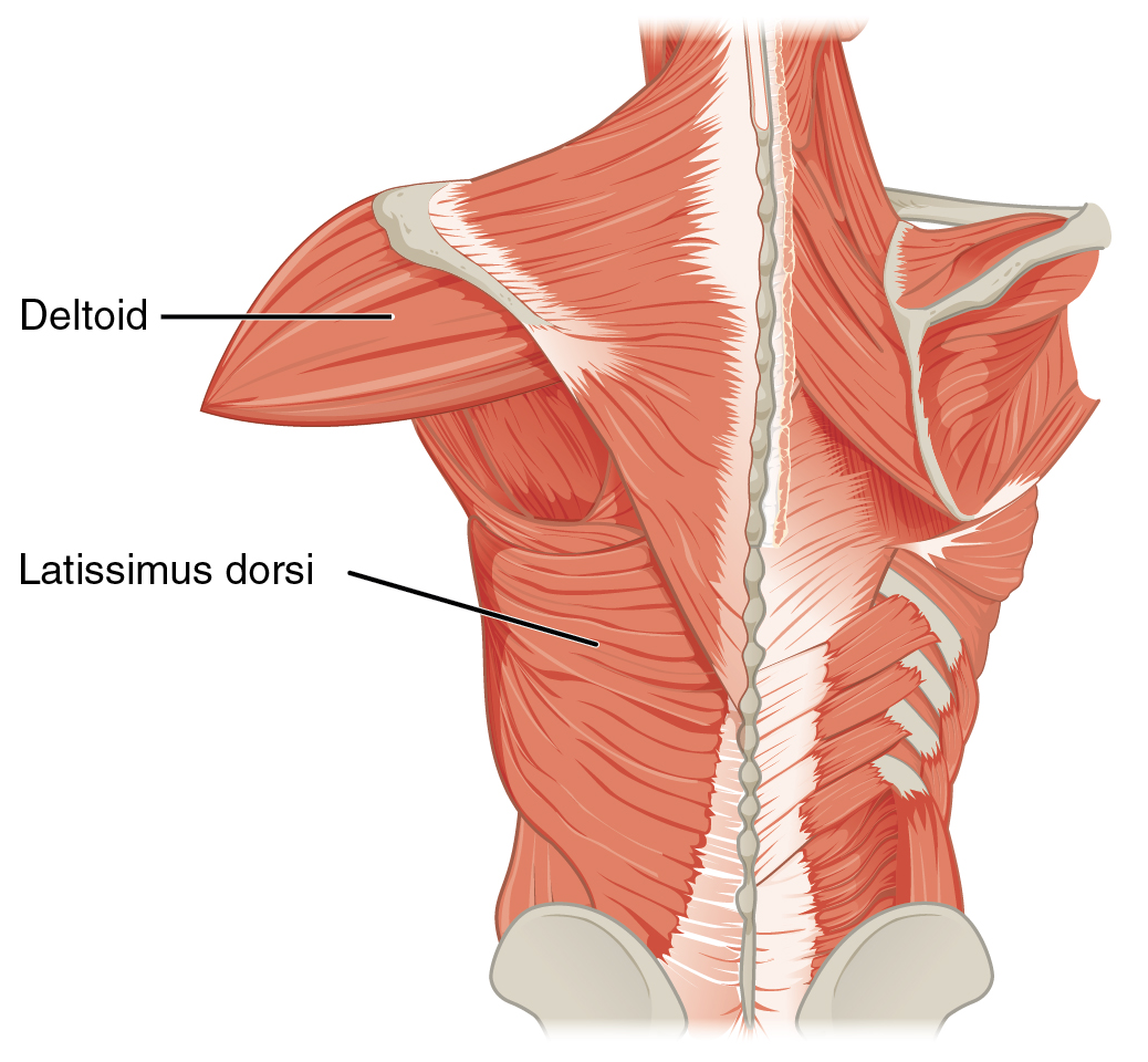 Caption: a, c) The muscles that move the humerus anteriorly are generally located on the anterior side of the body and originate from the sternum (e.g., pectoralis major) or the anterior side of the scapula (e.g., subscapularis). (b) The muscles that move the humerus superiorly generally originate from the superior surfaces of the scapula and/or the clavicle (e.g., deltoids). The muscles that move the humerus inferiorly generally originate from middle or lower back (e.g., latissiumus dorsi). (d) The muscles that move the humerus posteriorly are generally located on the posterior side of the body and insert into the scapula (e.g., infraspinatus). URL: Other versions: Original